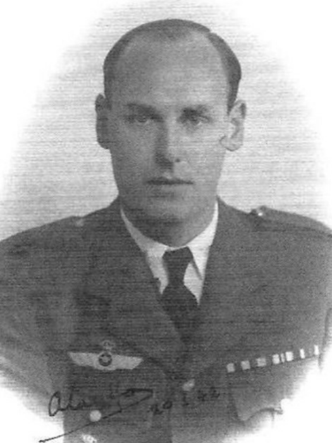 Photo portrait of Prince Ataúlfo Órleans Saxe-Coburg-Gotha